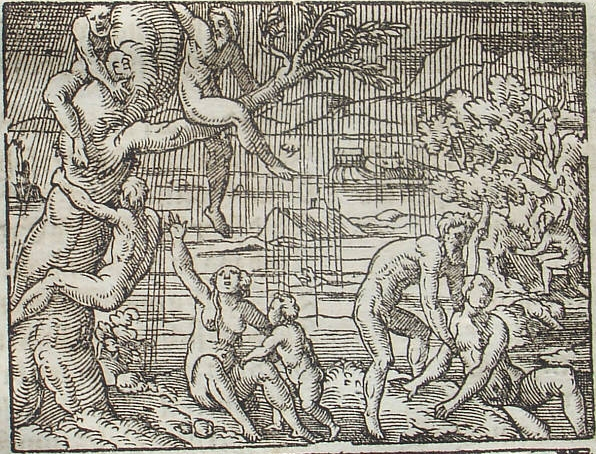 Deluge. Engraving by Virgil Solis for Ovid's Metamorphoses Book I, 253-312. Fol. 5v, image 9.